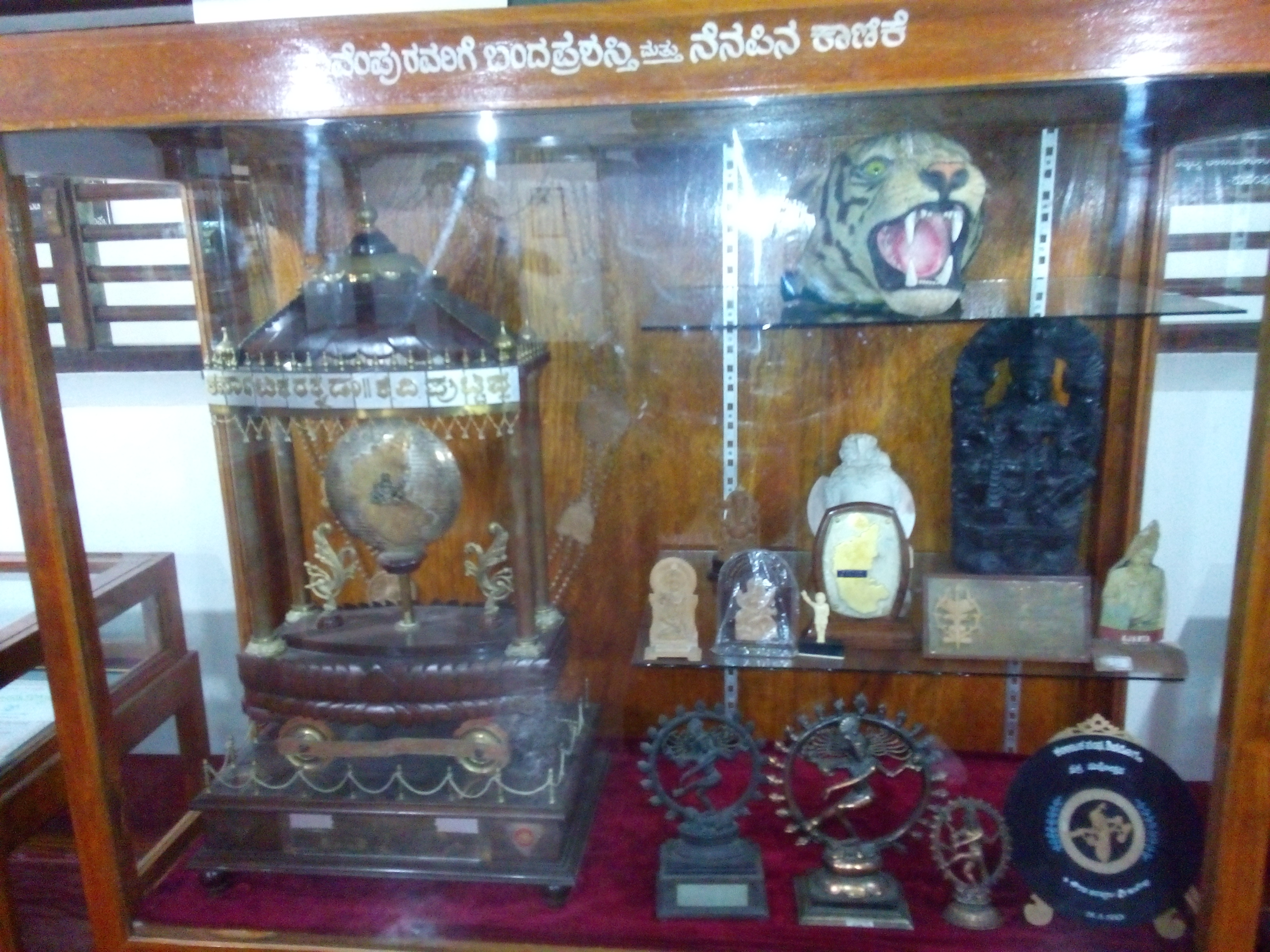 momentous and honours